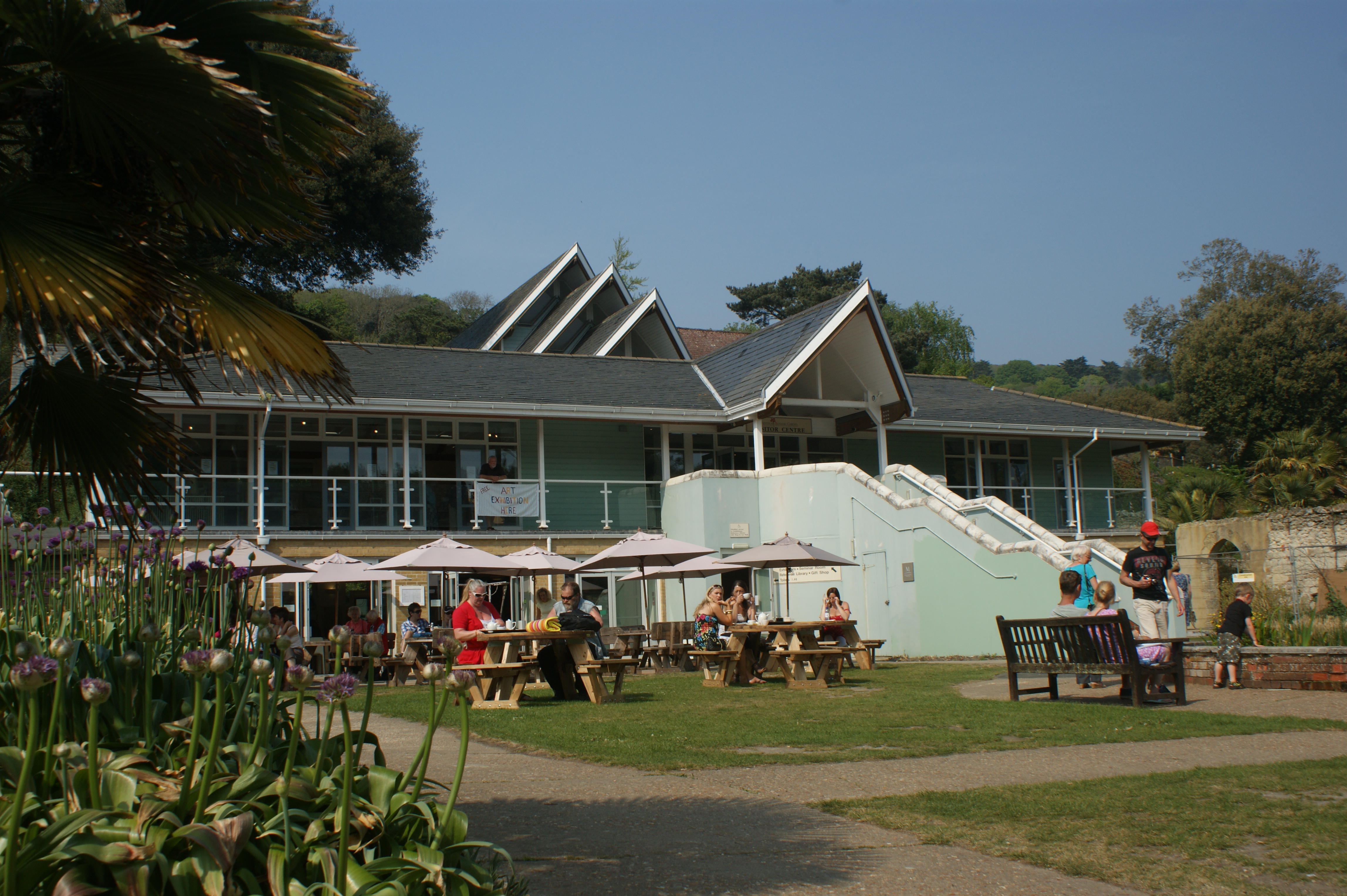 The cafe and visitors centre of Ventnor Botanic Garden, Ventnor, Isle of Wight.